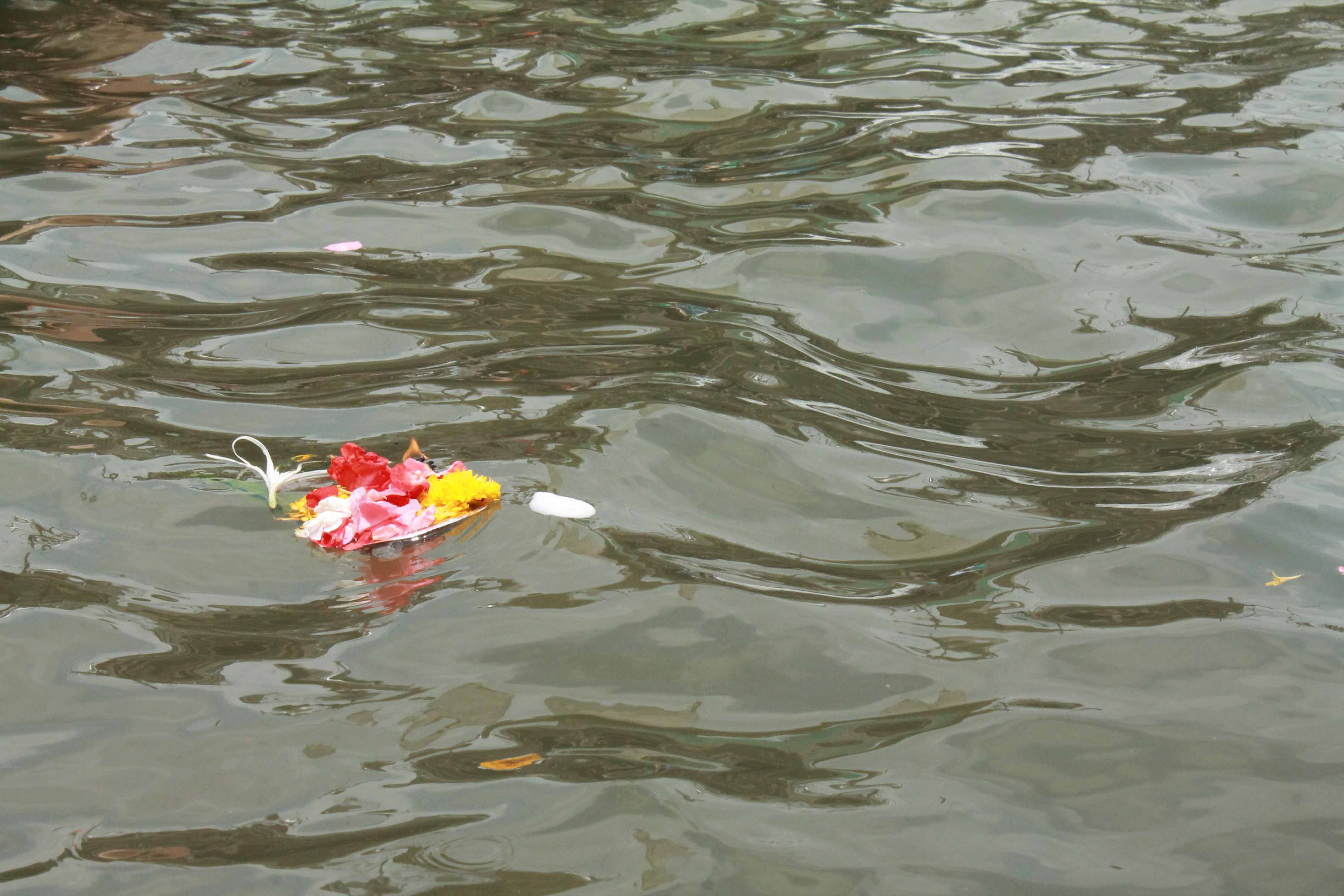 Photo for Wiki Takes Nashik.